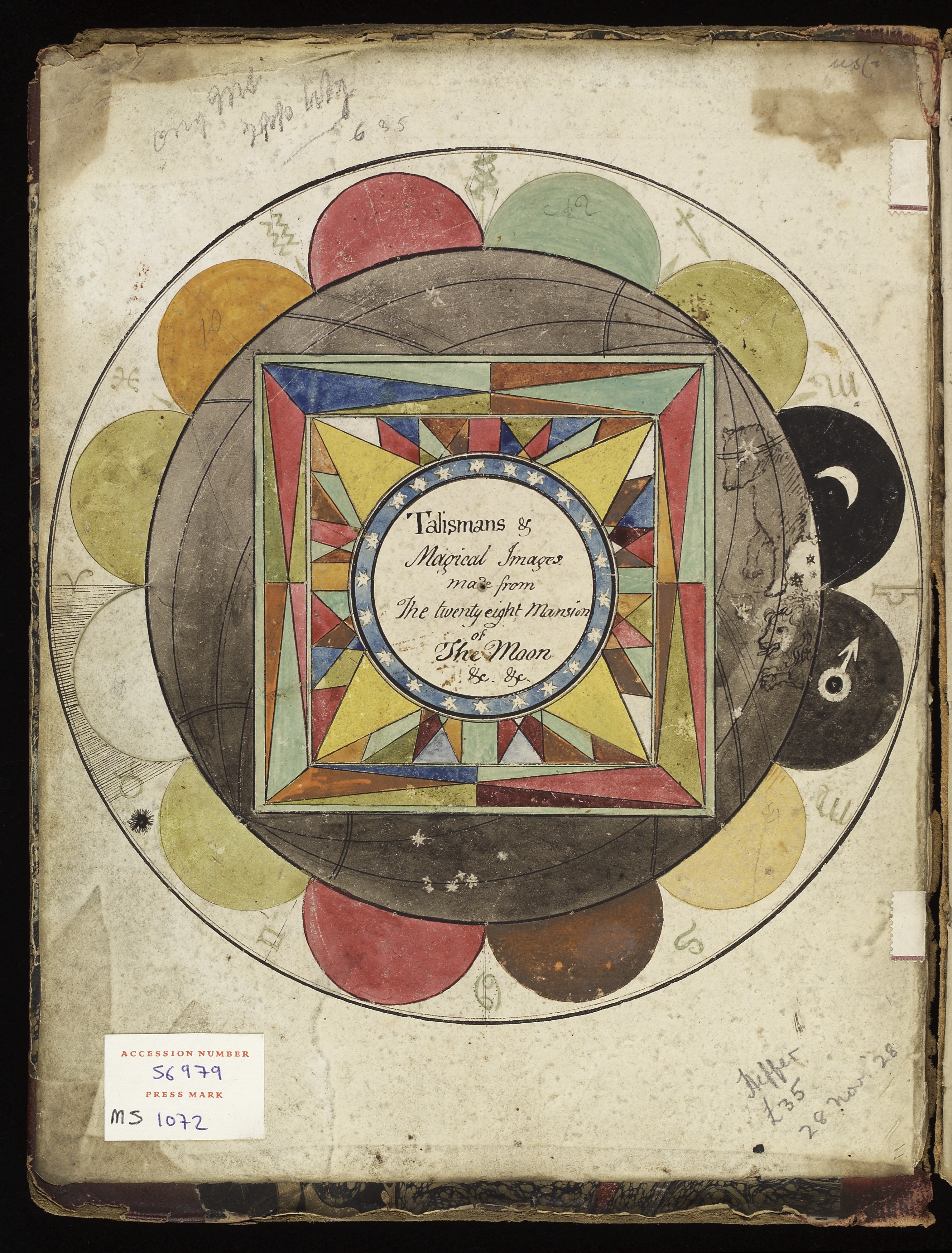 Coloured diagram pasted inside the cover entitled, 'Talismans and magical images made from the twenty-eight Mansions of the Moon, etc. etc.' Archives & Manuscripts Keywords: Occult; Talismans; Francis Barrett; Magic; Astrology